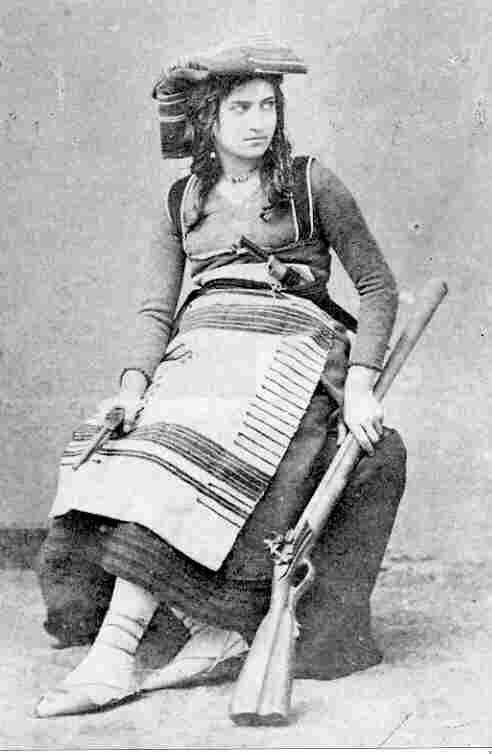 Michelina de Cesare, born in 1841, died (killed by piemontesian soldiers) in 1868, woman from South Italy who joined a group of warriors for freedom of south italy (brigantessa).